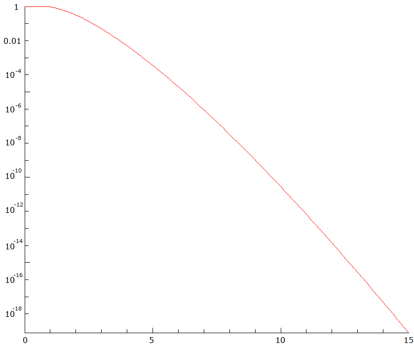 A plot of Dickman's rho function from 0 to 15, on a logarithmic scale.